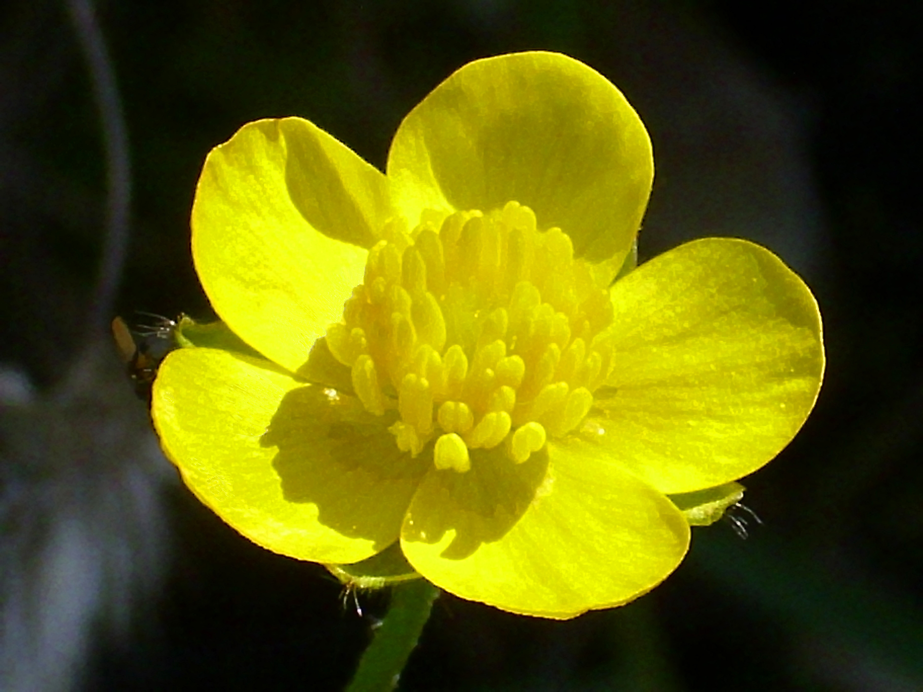 Ranunculus ollissiponensis flower close up, Sierra Madrona, Spain